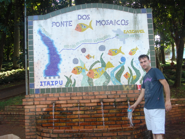 the true source of the mosaics.